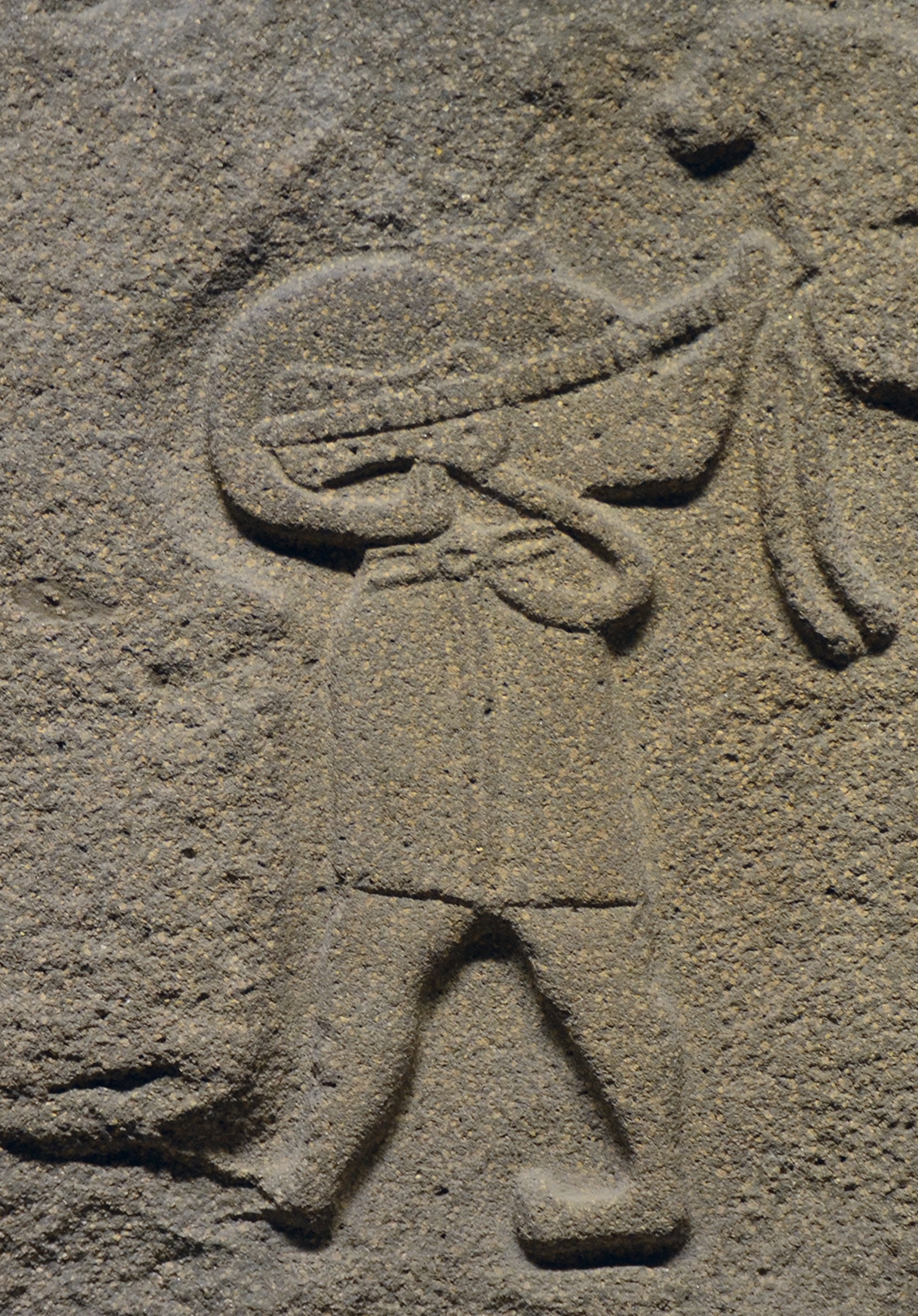 Alacahöyük relief depicting a figure playing a musical instrument similar to a guitar followed by another figure carrying an animal, 1399 - 1301 BC, Museum of Anatolian Civilizations, Ankara